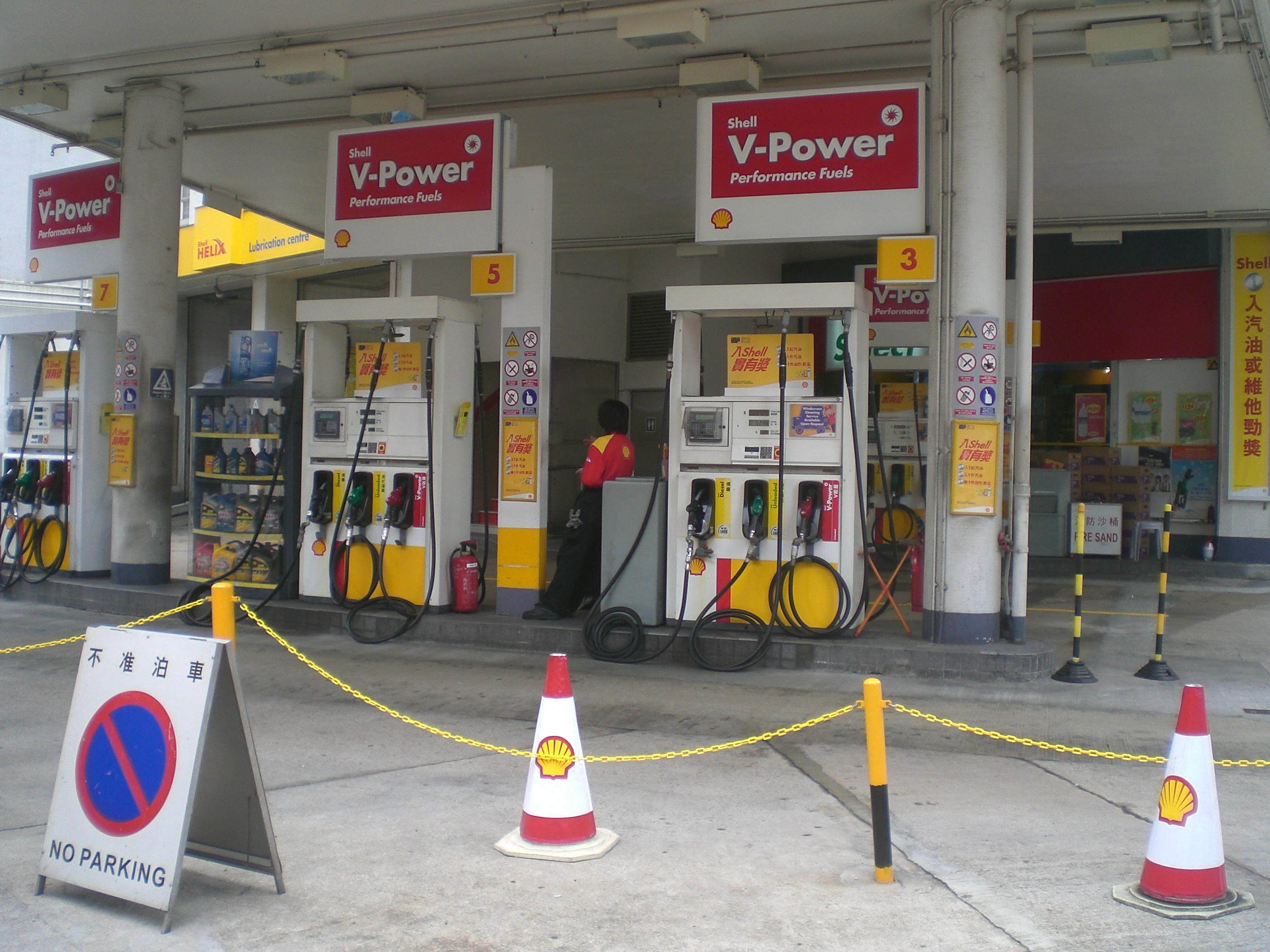 Hong Kong Mongkok Road Shell V-Power petrol station